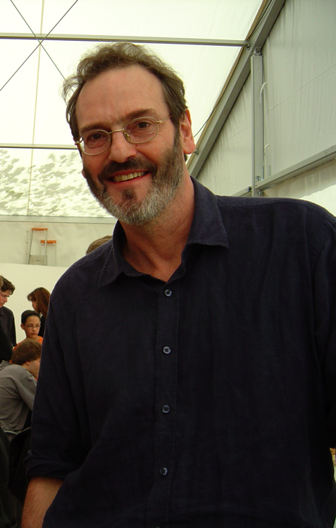 The British writer Robert Holdstock (1948-2009) during the festival Les Imaginales (Épinal, France), saturday 15 may 2004.